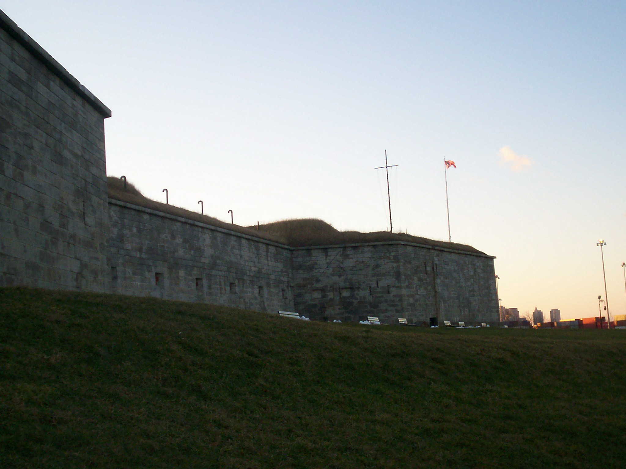 Fort Independence on Castle Island, South Boston.